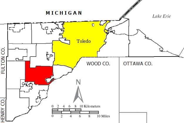 Made by the US Census and modified by myself